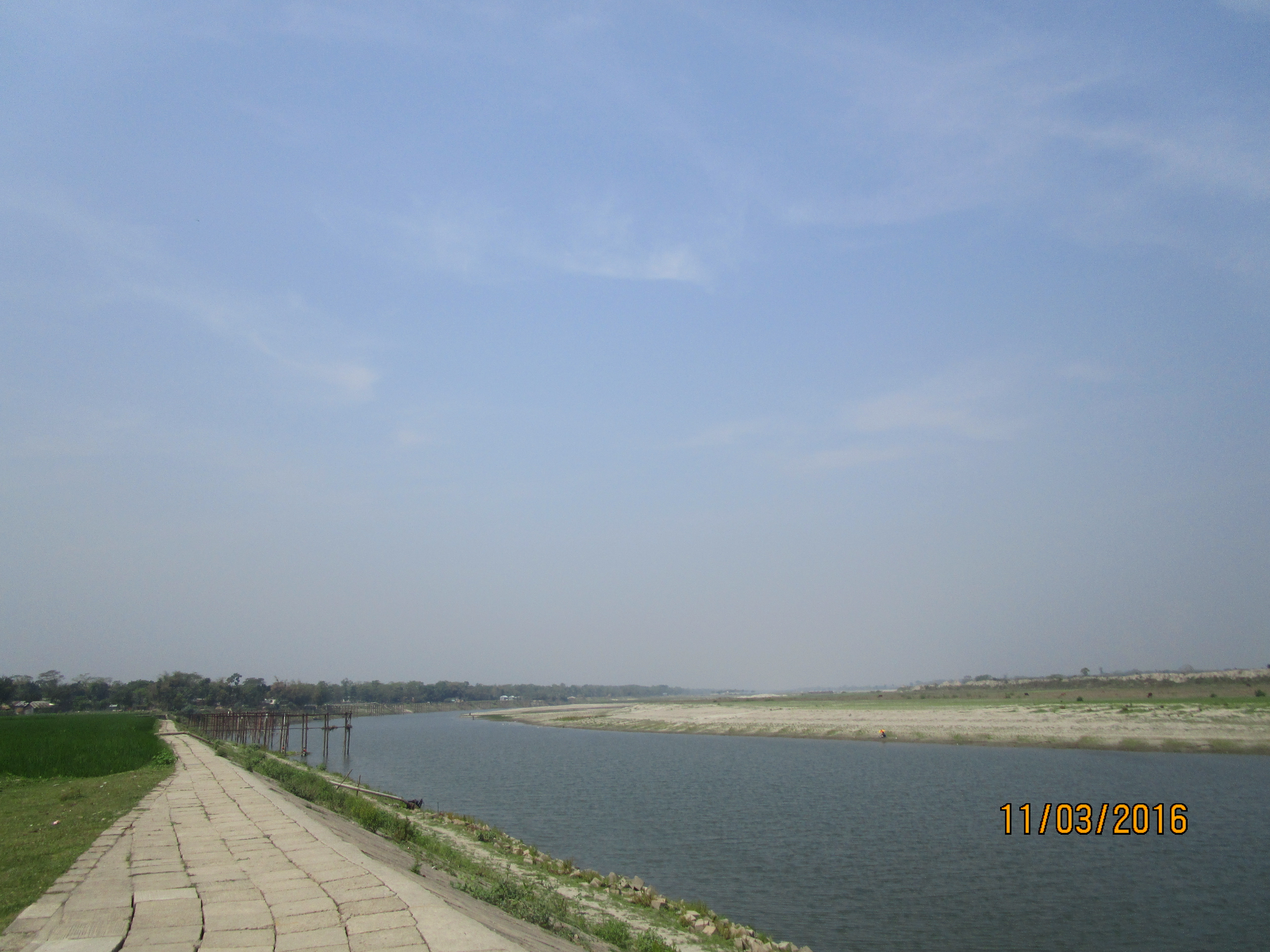 Old Brahmmaputra River upstream side at Gafargaon bridge